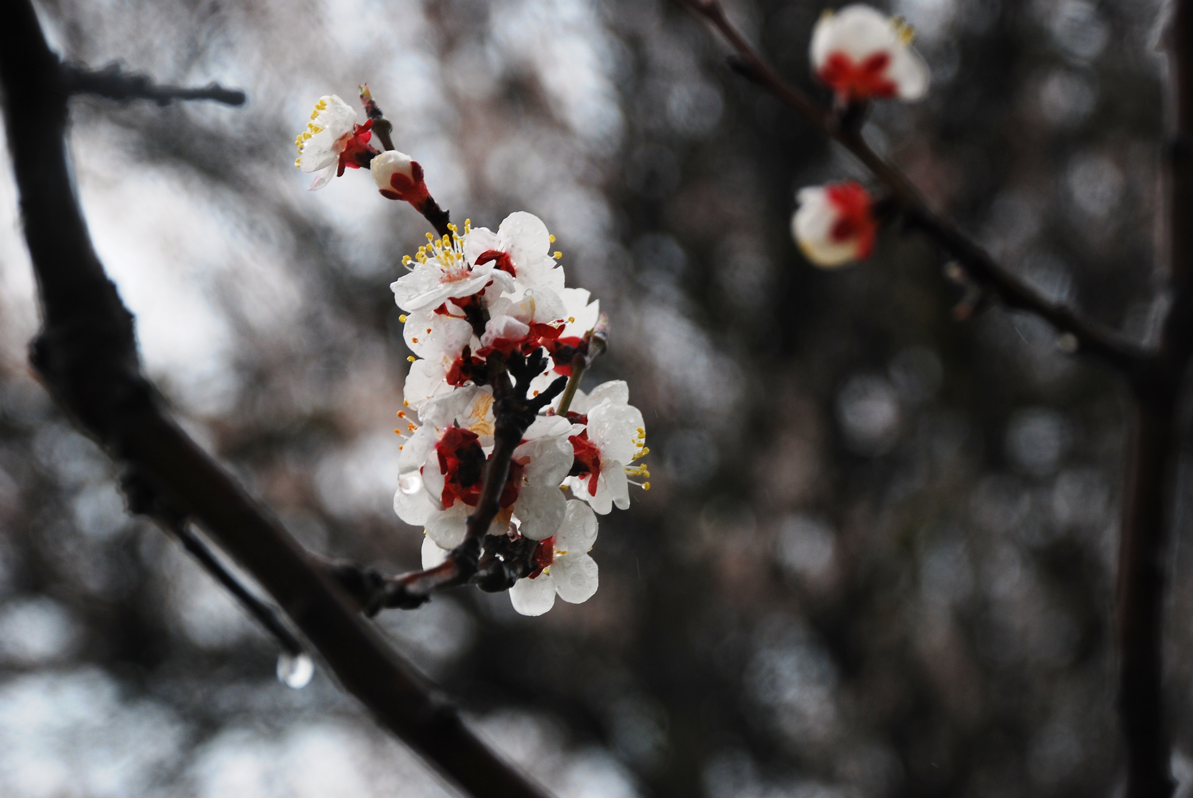 Flowers of Apricot at the rain (Georgia, Dusheti Dist)